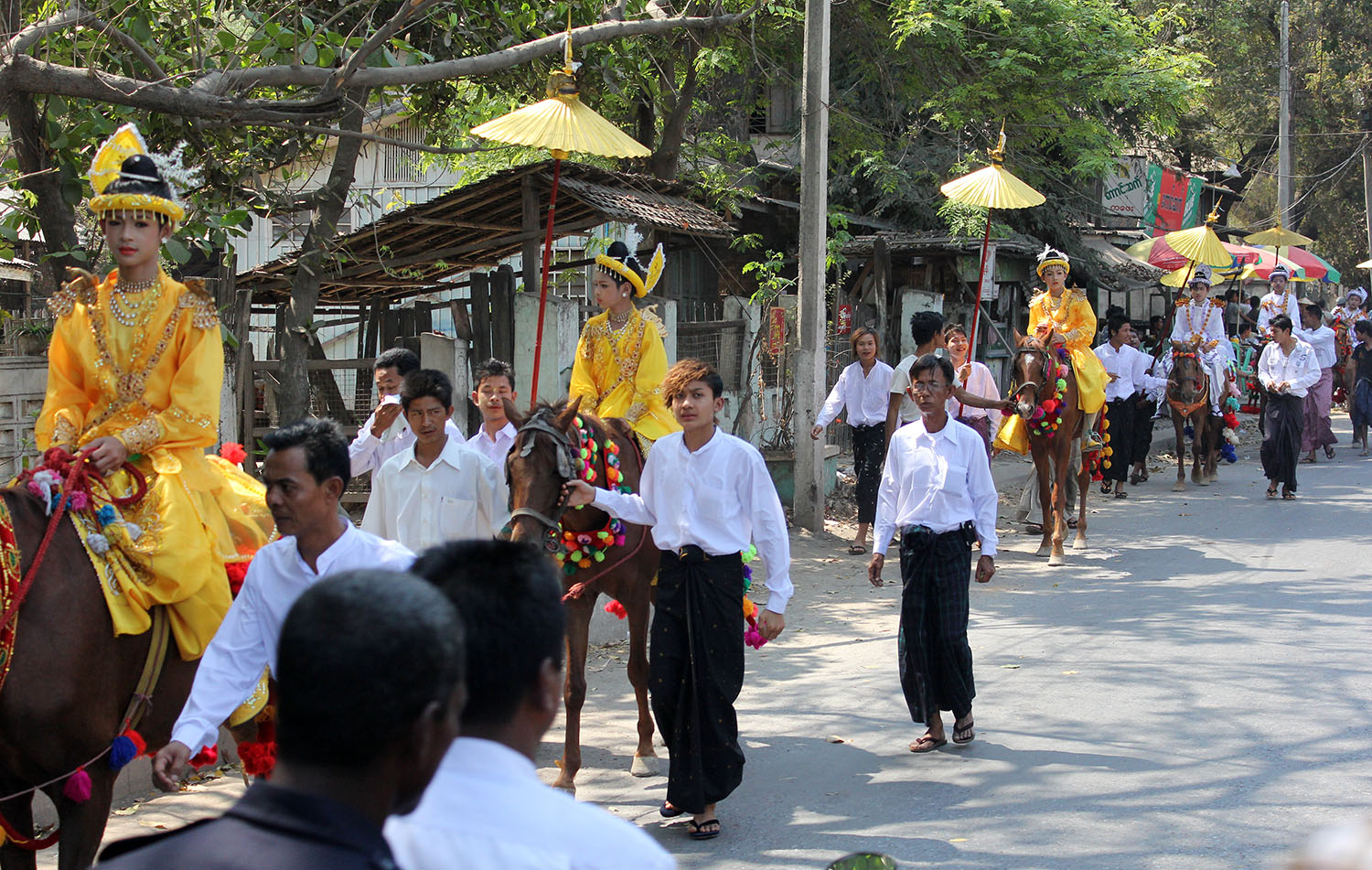 Myanmar Traditional novitiation marchမြန်မာဘာသာ: မြန်မာ့ရိုးရာ ရှင်ပြု လှည့်လည်ပွဲ